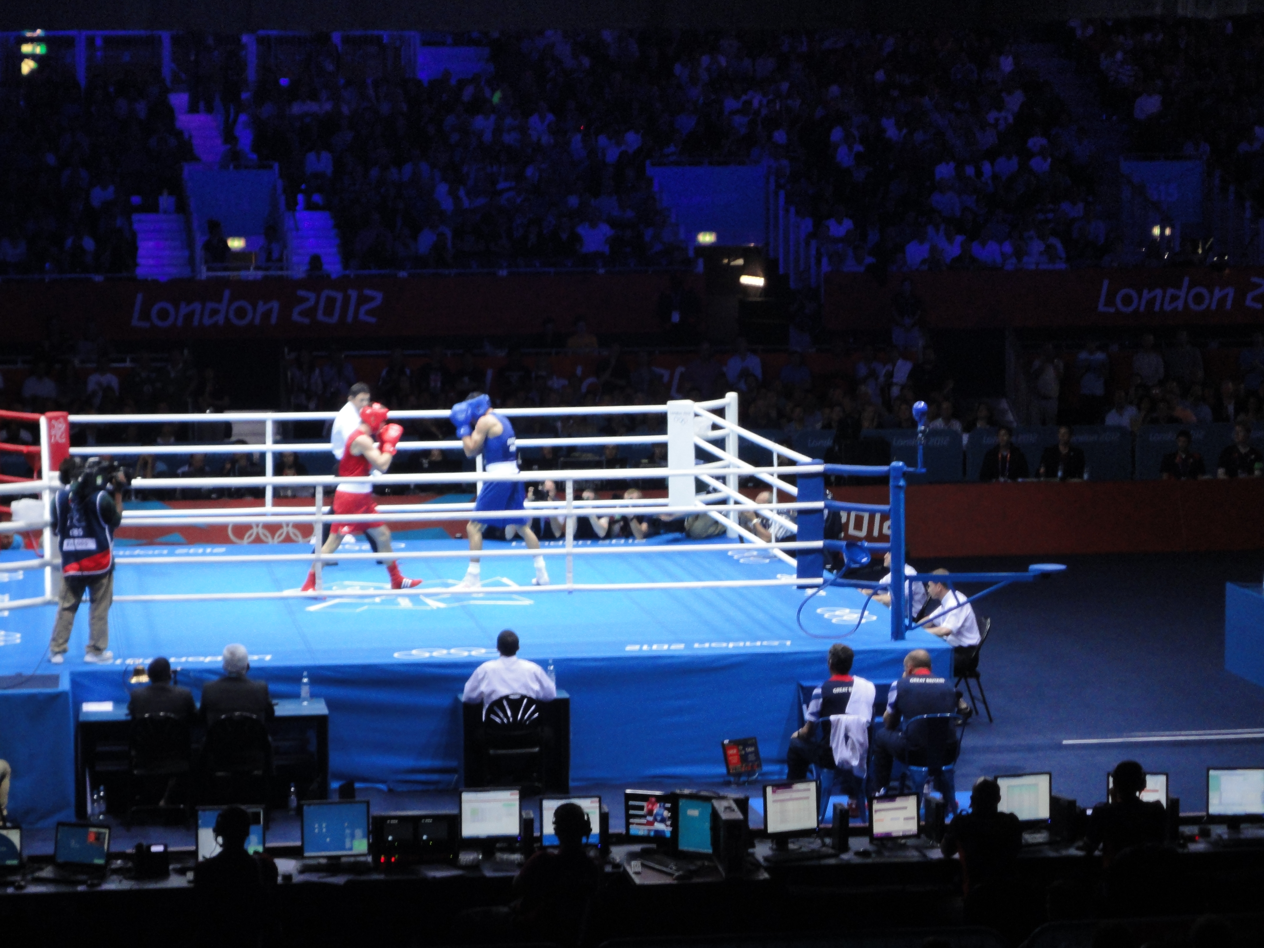 Evhen Khytrov (UKR, red) vs. Anthony Ogogo (GBR, blue) in men's middleweight round of 16 bout at the 2012 Summer Olympics.